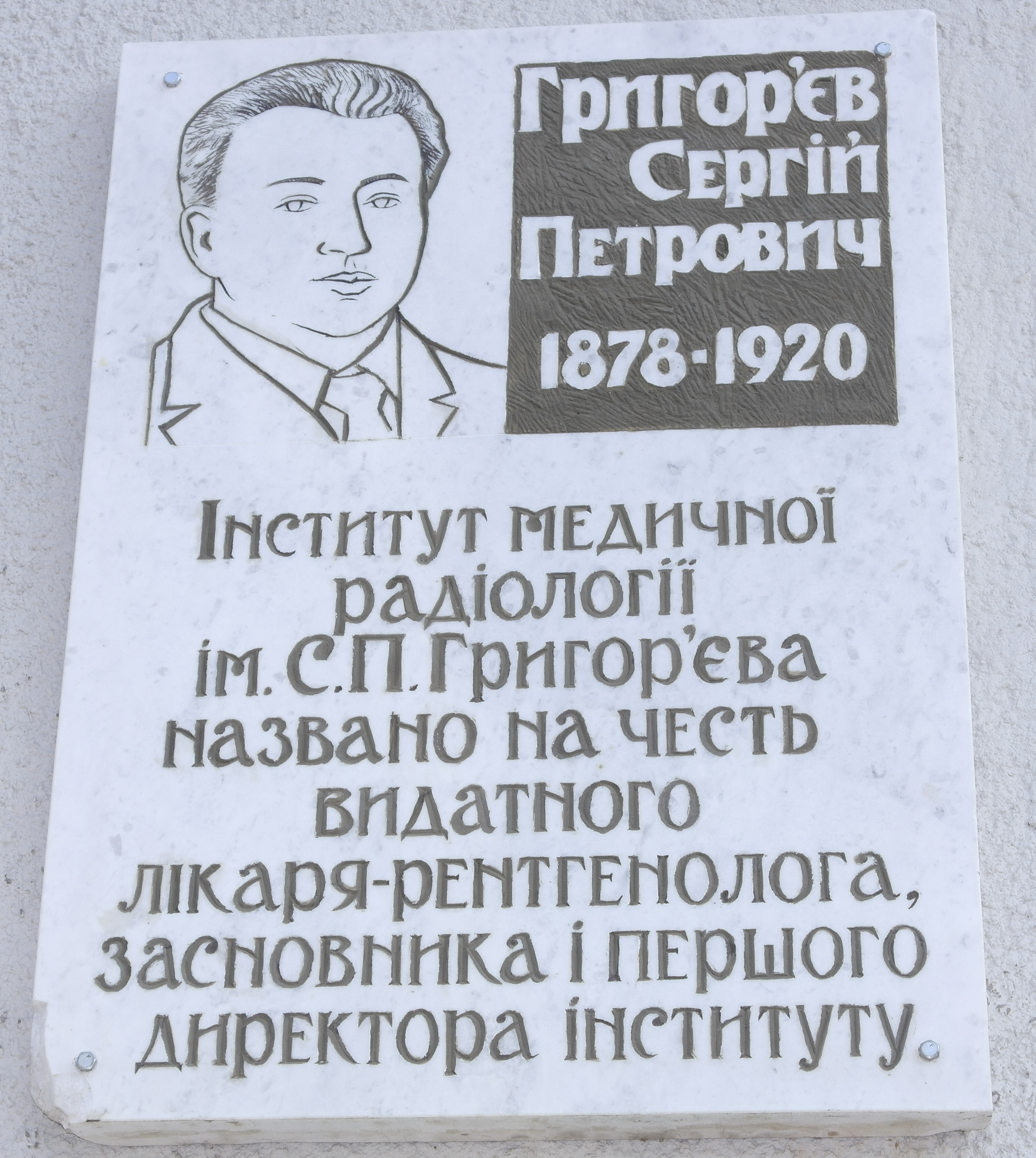 Memorial plaque for Sergey Grigoryev on the wall of Grigoriev Institute for medical Radiology NAMS of Ukraine in Kharkiv